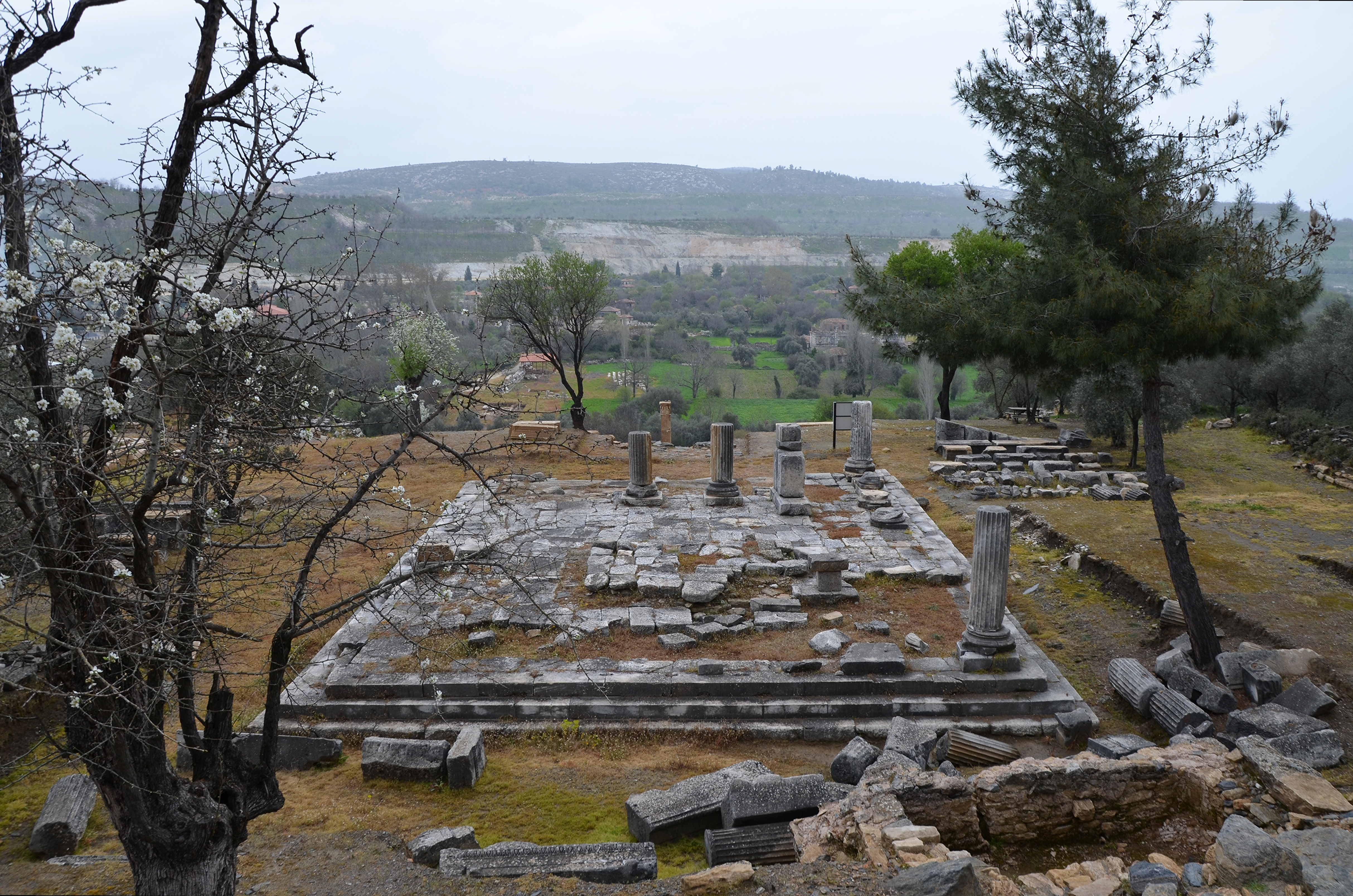 Peripteral temple built in the Ionic order, it is situated on the upper terrace and was probably dedicated to the Roman Emperor (possibly Augustus), early imperial period, Stratonicea, Caria, Turkey